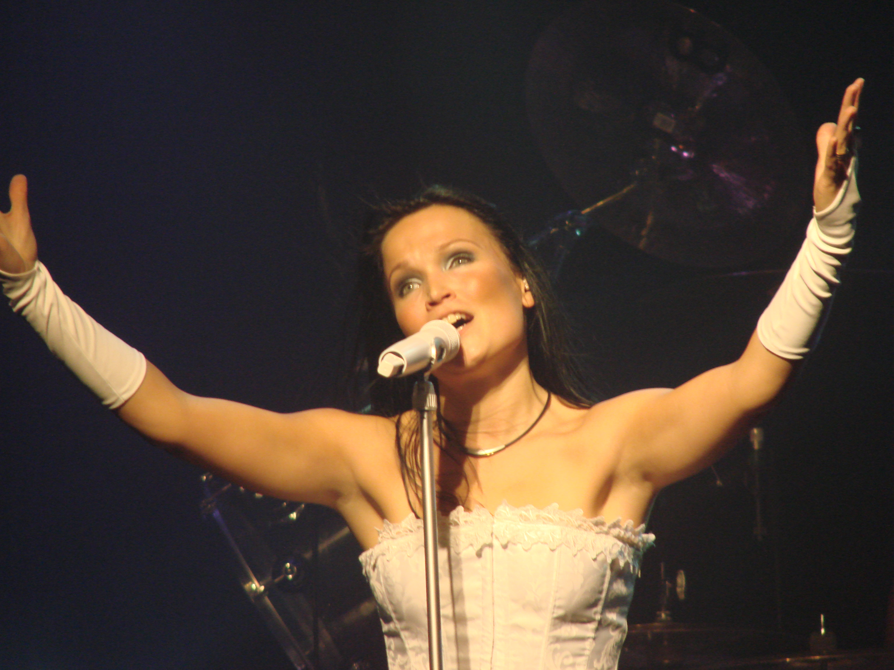 Tarja Turunen singing at the Obras Stadium in Buenos Aires, Argentina, on September 6, 2008. This was the last show of the Winter Storm tour on America.